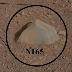 08.19.2012 'Coronation' Rock on Mars This mosaic image with a close-up inset, taken prior to the test, shows the rock chosen as the first target for NASA's Curiosity rover to zap with its Chemistry and Camera (ChemCam) instrument. ChemCam fired its laser at the fist-sized rock, called "Coronation" (previously “N165”), with the purpose of analyzing the glowing, ionized gas, called plasma, that the laser excites.